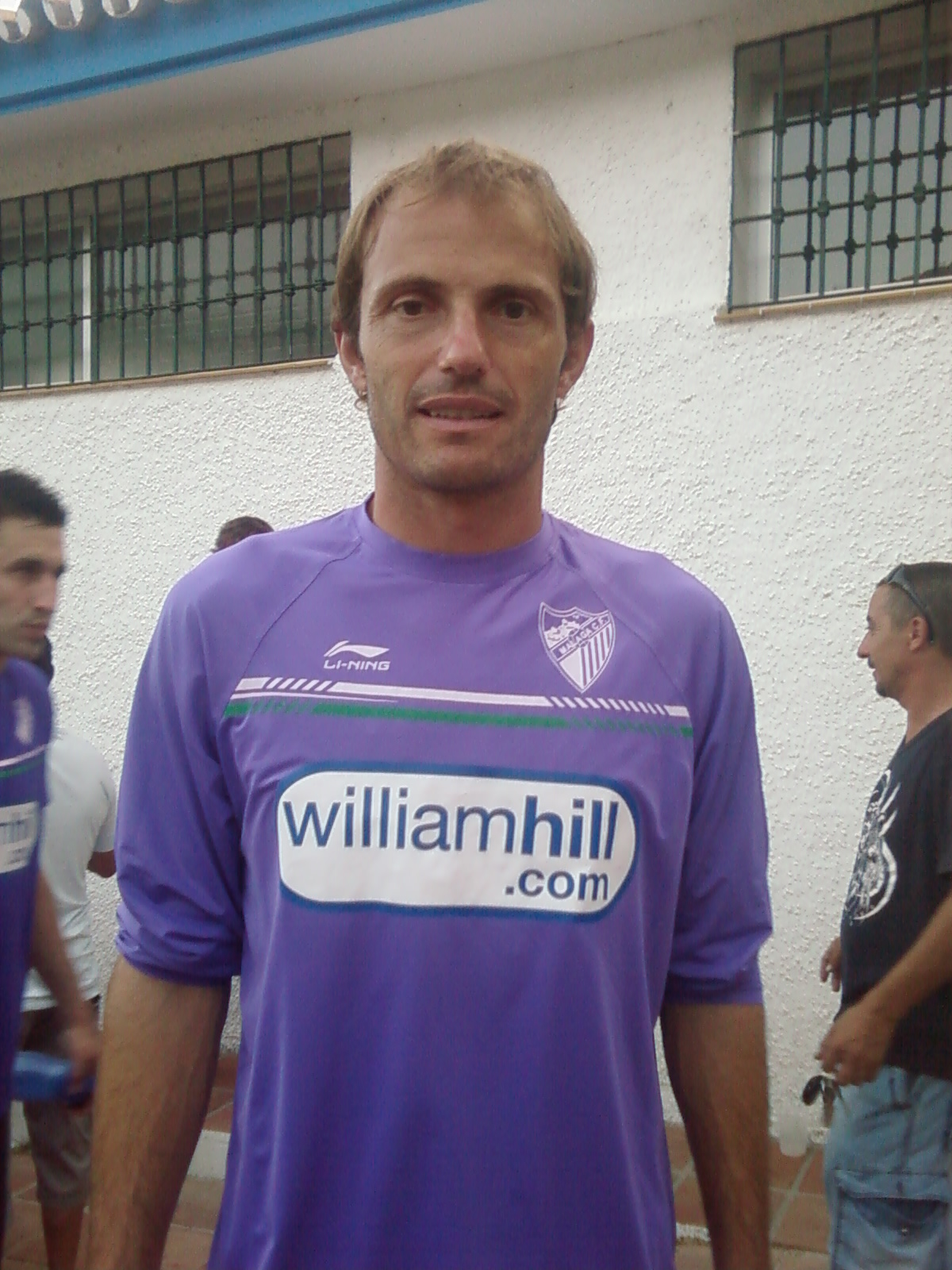 Francesc Arnau. Málaga CF's goalkeeper.